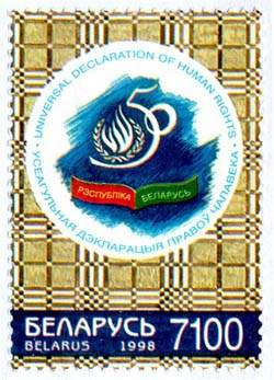 Stamp of Belarus